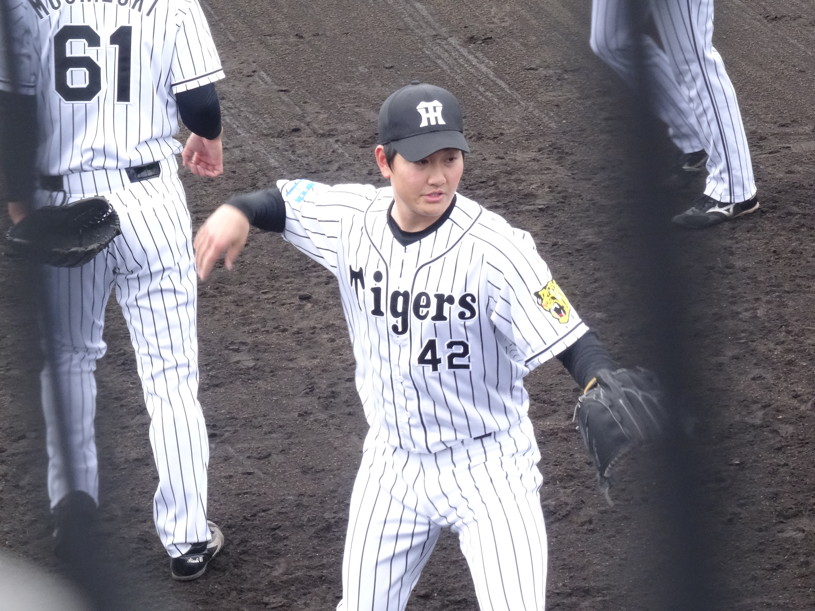 Daichi Takeyasu, pitcher of the Hanshin Tigers, at Hanshin Naruohama Baseball Ground